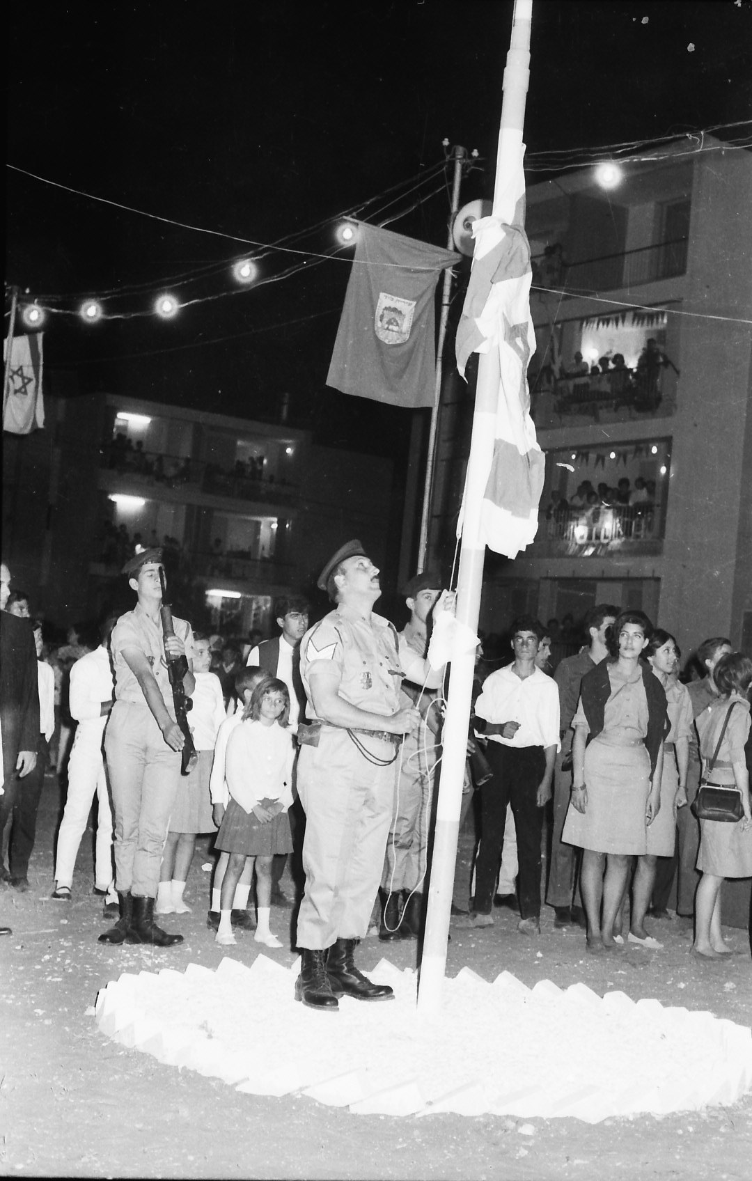 Education in Israel